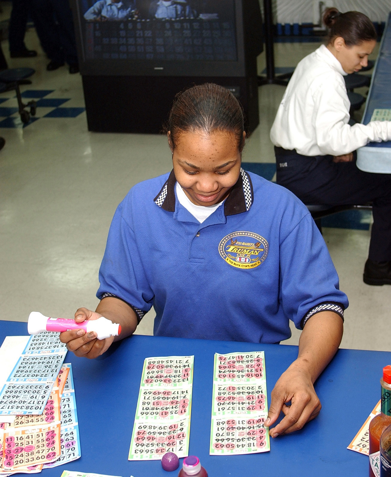 Bingo, 050120-N-6125G-071 Persian Gulf (Jan. 20, 2005) – Culinary Specialist Seaman Charity Beckett relaxes as she plays bingo, sponsored by Morale, Welfare and Recreation (MWR) aboard USS Harry S. Truman (CVN 75). Carrier Air Wing Three (CVW-3) is embarked aboard Harry S. Truman and is providing close air support and conducting intelligence, surveillance and reconnaissance missions over Iraq. The Truman Carrier Strike Group and CVW-3 are on a regularly scheduled deployment in support of the Global War on Terrorism. U.S. Navy photo by Photographer's Mate Airman Eric S. Garst (RELEASED)